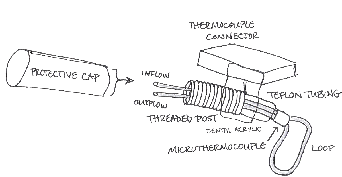 Cryoloop as would be implanted without being attached to a methanol reservoir setup. Modified from Figure 1 of Lomber, S. G., Payne, B. R., & Horel, J. A. (1999). The cryoloop: an adaptable reversible cooling deactivation method for behavioral or electrophysiological assessment of neural function.